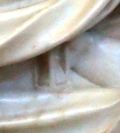 Rightand putto's hourglass van den Eynde